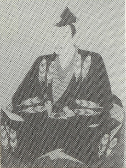 Drawing of Kikuchi Yoshiyuki